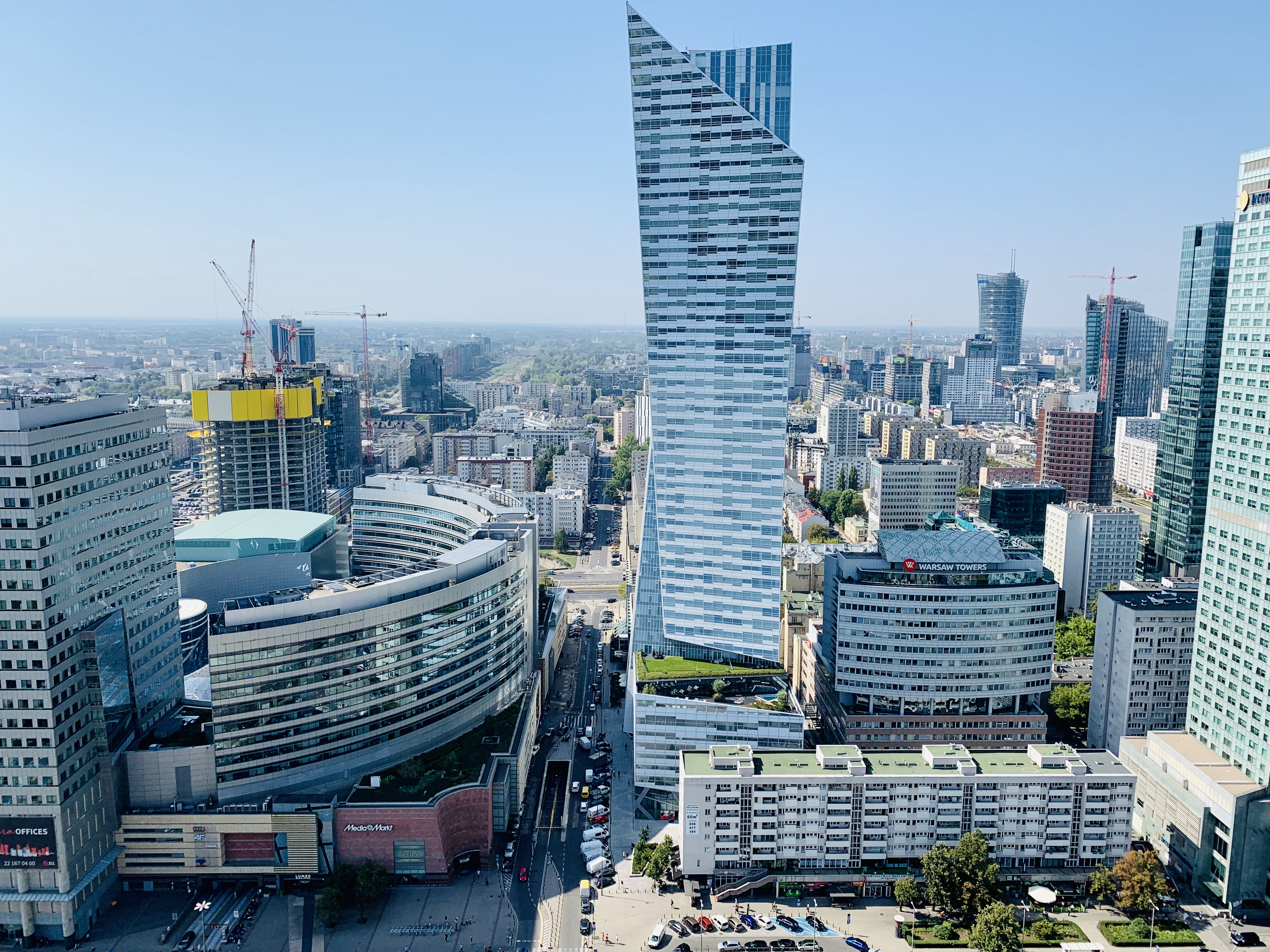 Views from Palace of Culture and Science in Warsaw, Poland, 2019